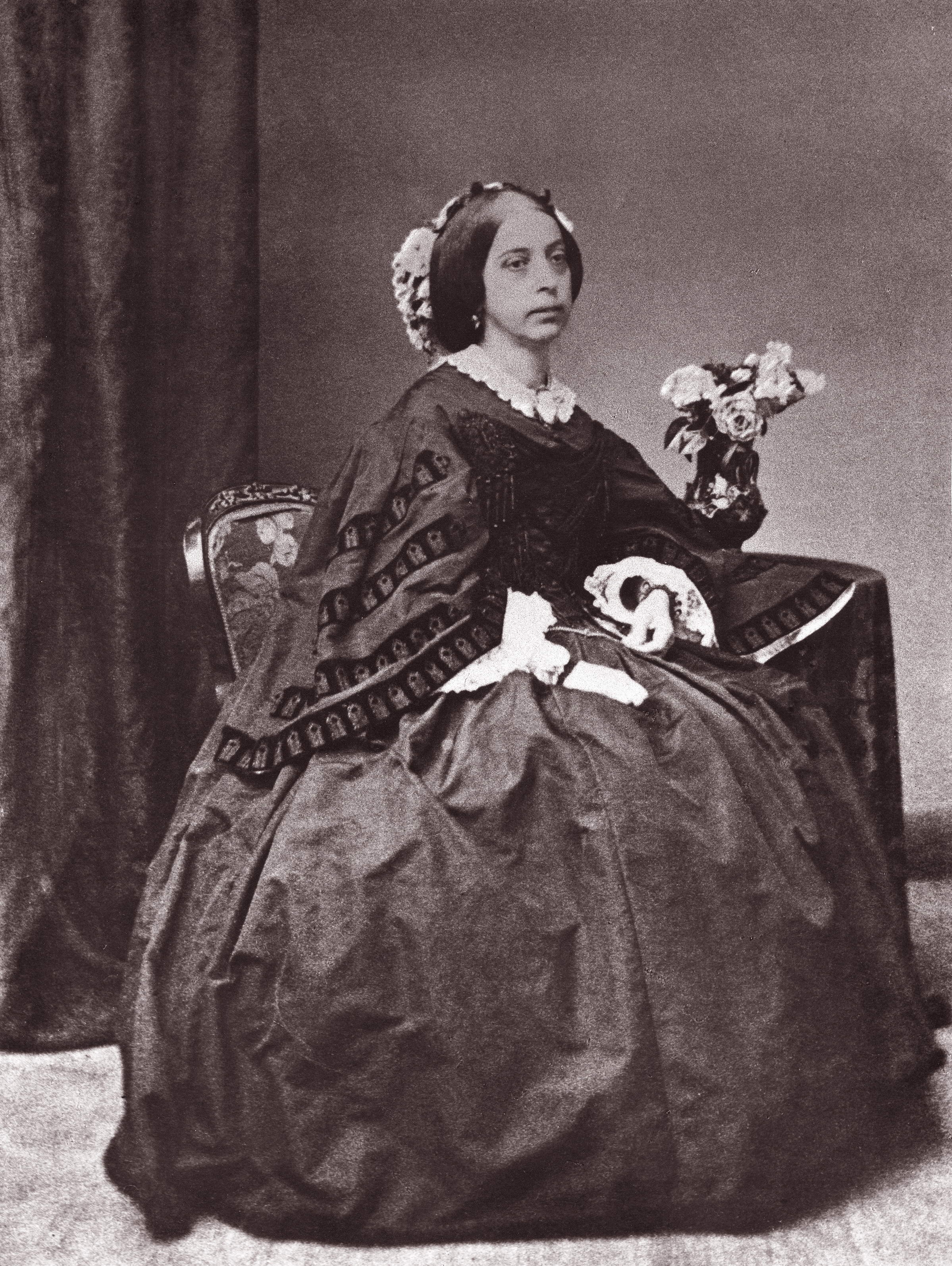 Antónia Ferreira (1811-1896), Portuguese entrepreneur.